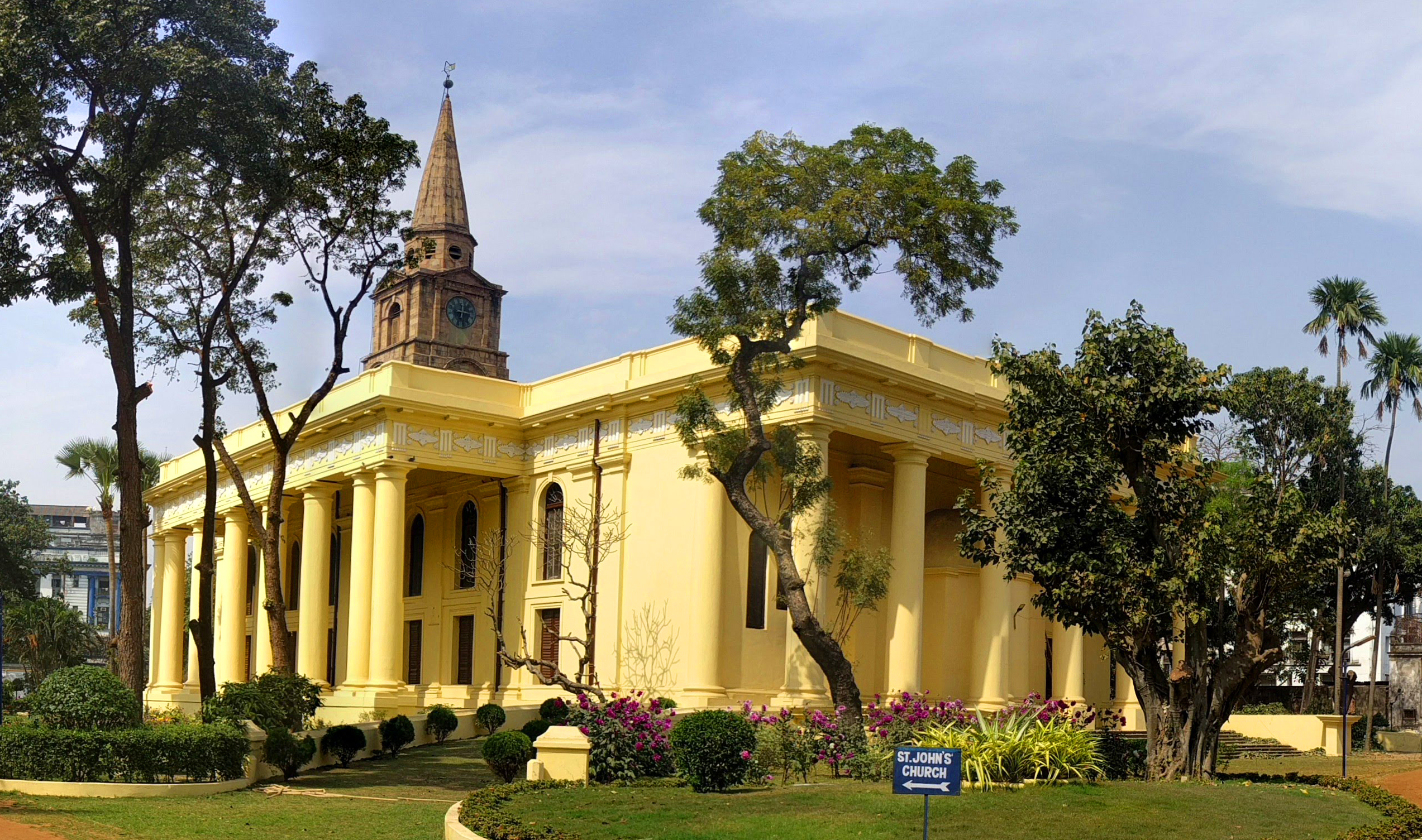 Panorama view of St. John's Church, Kolkata